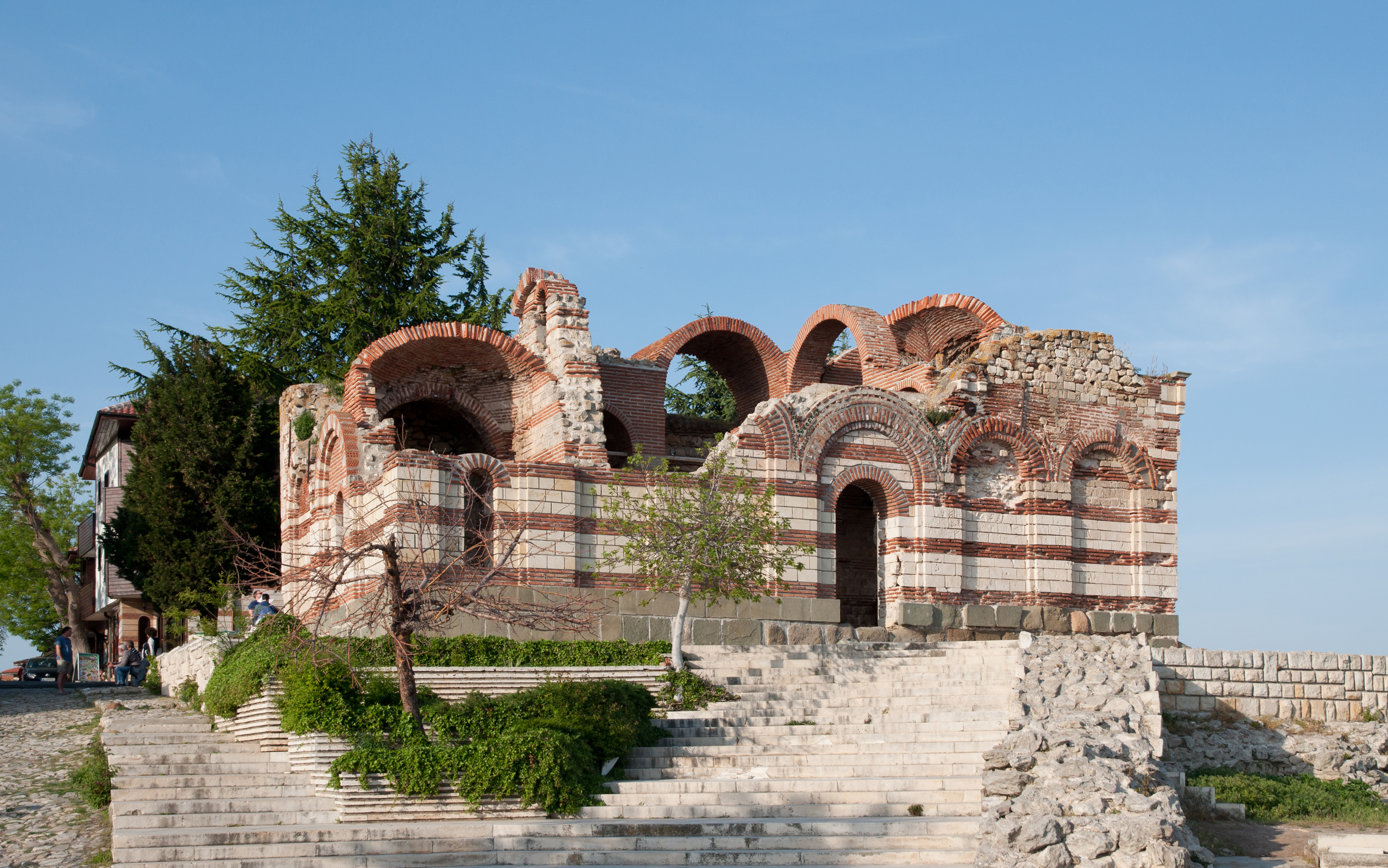 The ruins of St John Aliturgetos church in the coastal town of Nesebar, Bulgaria. The church was built in 14th century. Byzantine style. The old town of Nesebar is a UNESCO World Heritage Site.